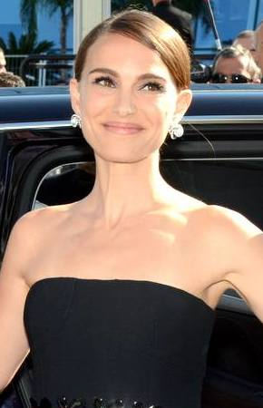 Natalie Portman at the Cannes film festival